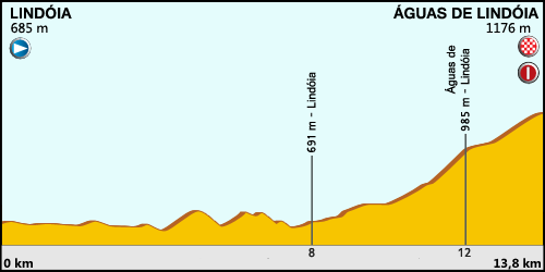 Profile of the 1st stage of the 2013 Desafio das Américas de Ciclismo